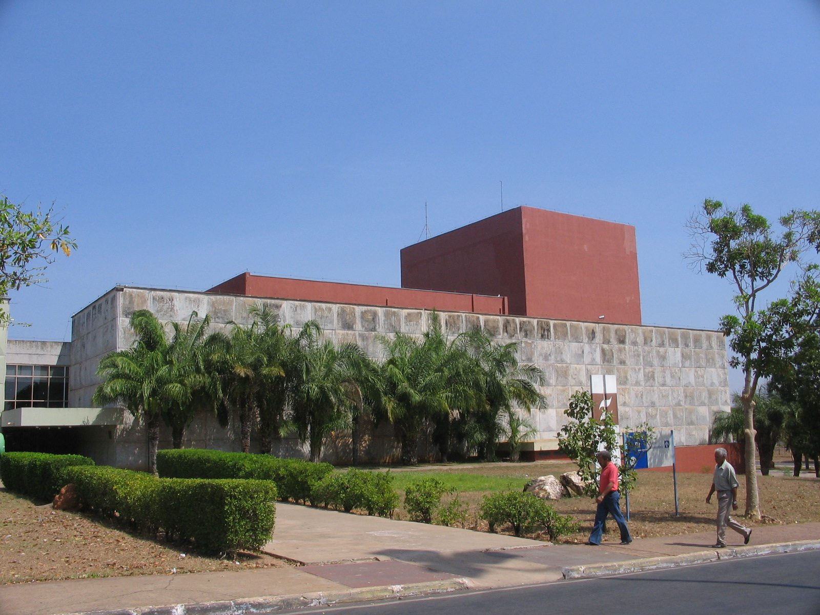 Theater of the Federal University of Mato Grosso, in Cuiabá.